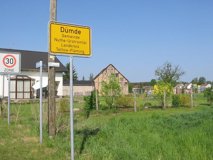 Dümde, a village (part) of the municipality Nuthe-Urstromtal in Brandenburg, Germany.